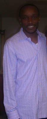 Samari Rolle with a fan at his former high school.